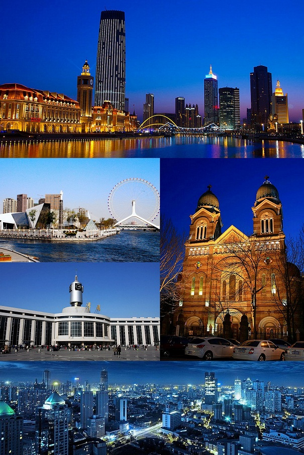 Tianjin jinwan plaza